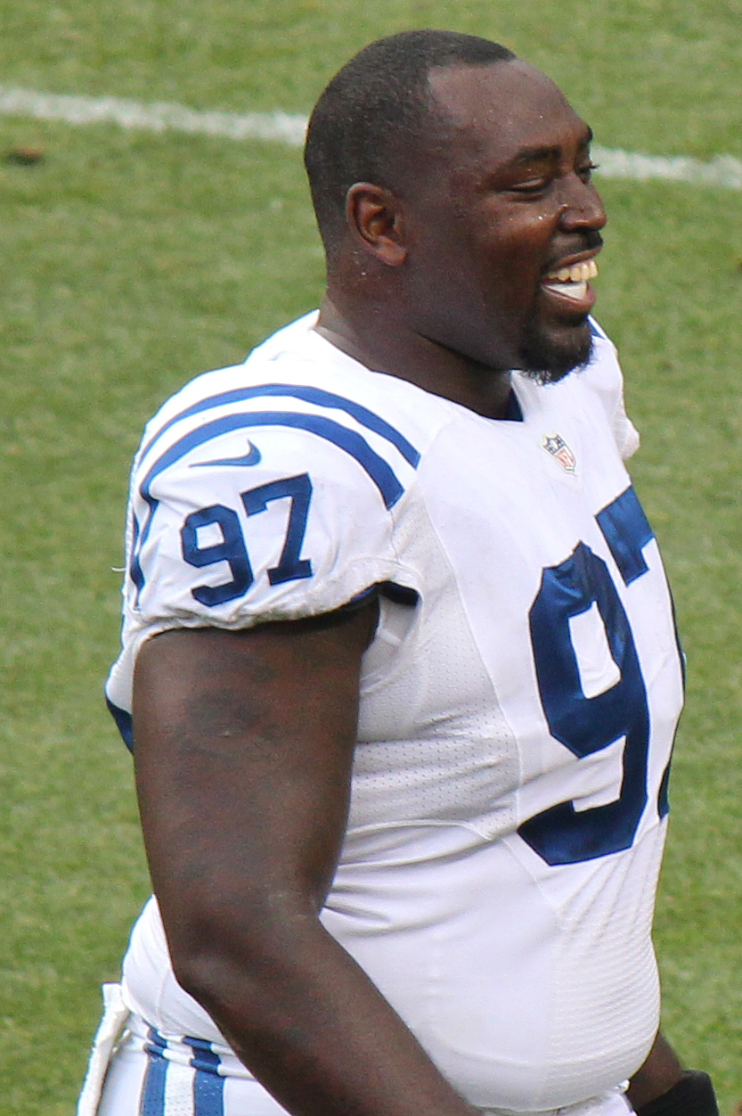 Arthur Jones, a player on the National Football League.